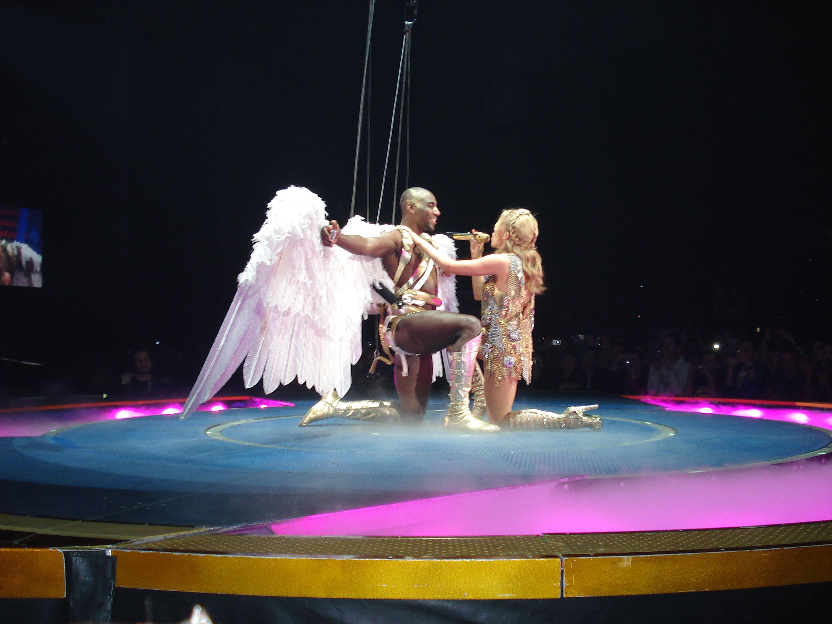 Kylie Minogue and an angel in the show "Aphrodite - Les Folies Tour 2011"